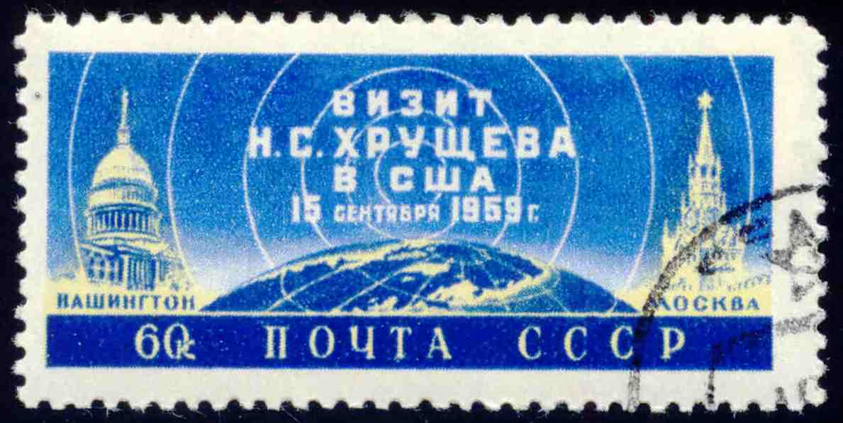 Soviet Union stamp, visit of Nikita Khrushchev to the USA, 1959, 60 kop., CPA 2370.